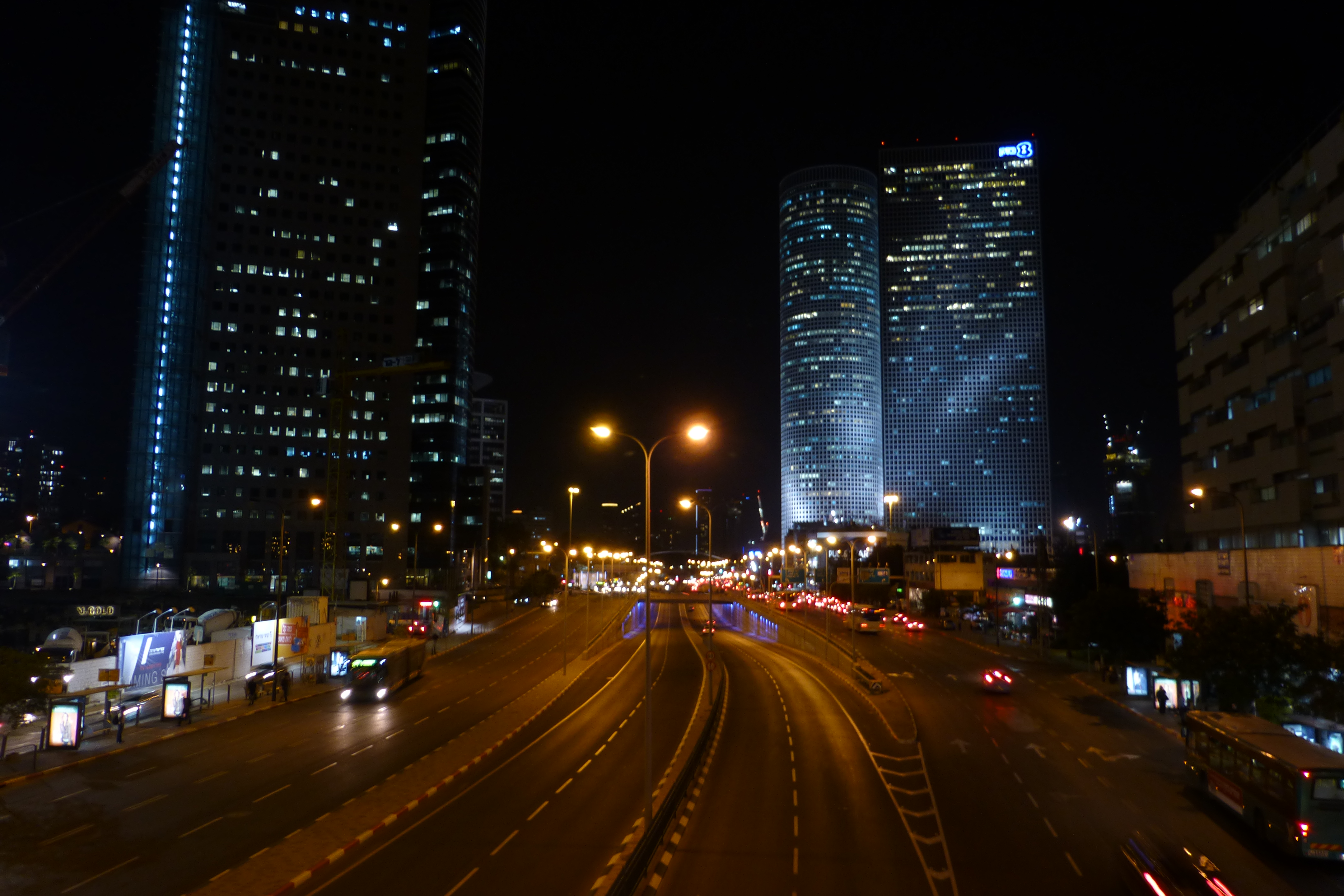 Azriely Towers